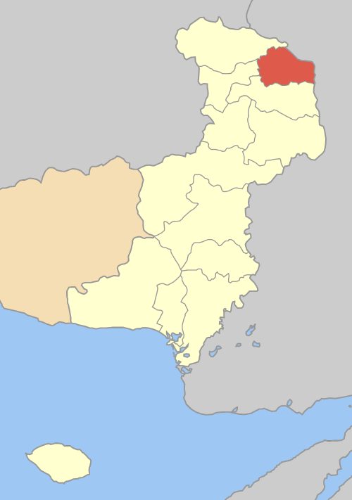 Locator map of Vyssa municipality (Δήμος Βύσσας) in Evros prefecture (Νομός Έβρου) in Greece.